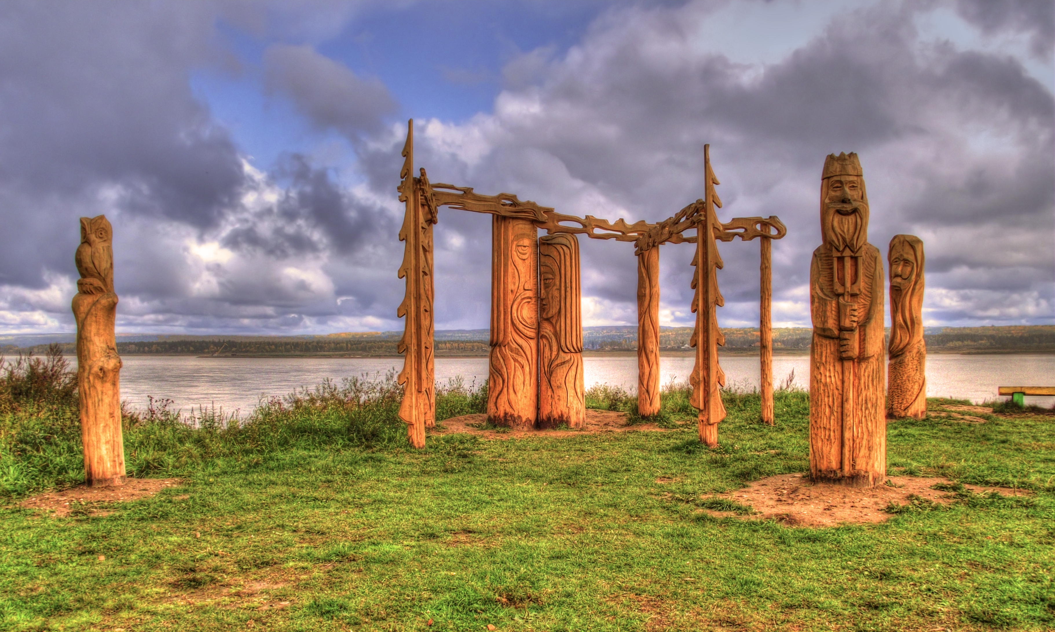 Wooden sculpture symbolizing the merger of the Yenisei River and Angara River. It was set on the embankment of the Yenisei River in Lesosibirsk. In the foreground on the right - Baikal, the "father" of the Angara